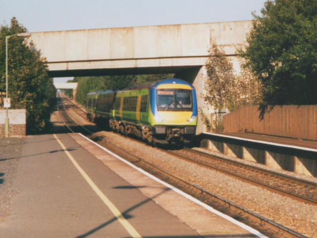 Looking up Lickey Incline The long incline north-east of Bromsgrove station is among the steepest on any main line railway in the UK and was feared by drivers in steam days, but is no hazard for modern diesels.